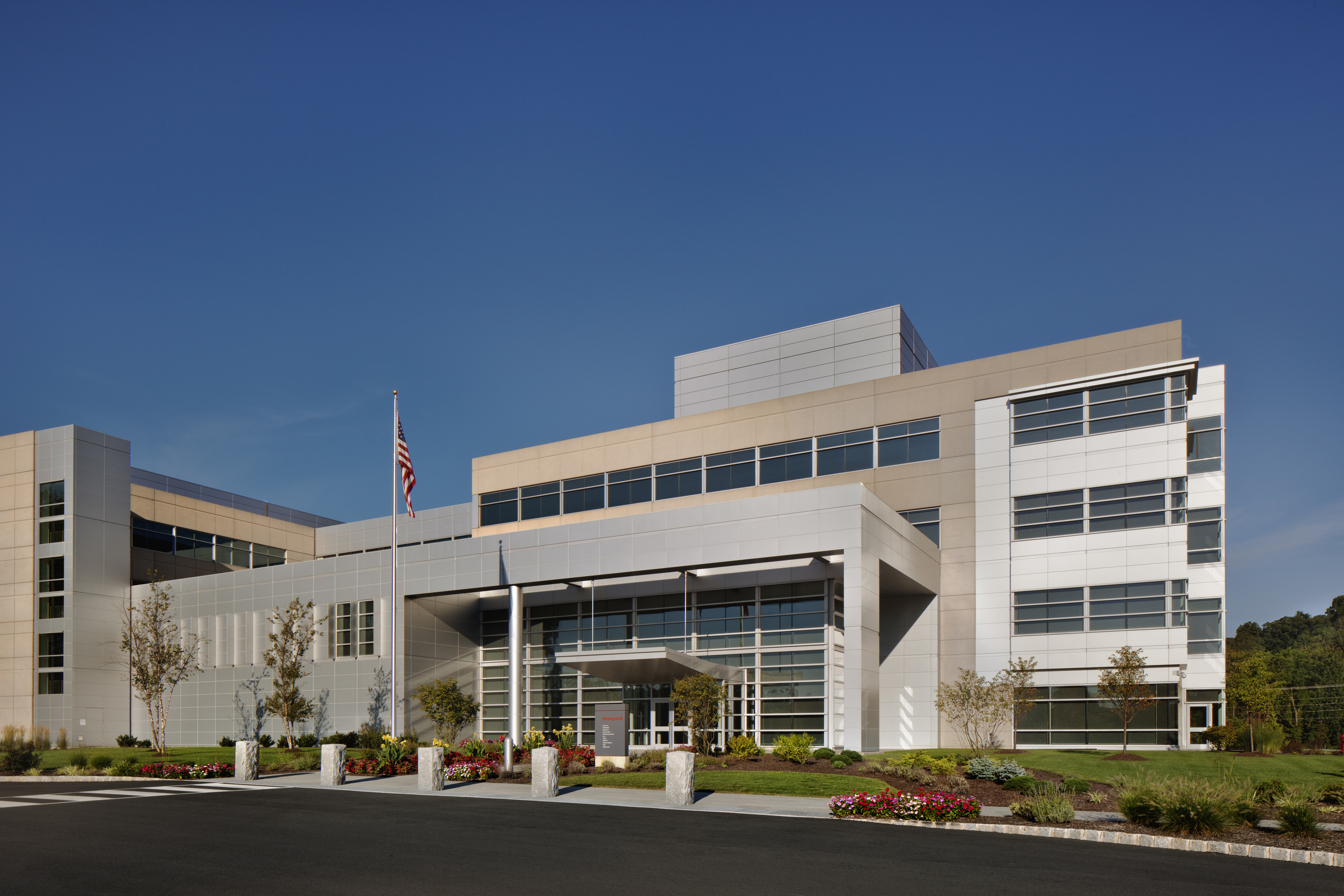 Honeywell headquarters in Morris Plains, New Jersey